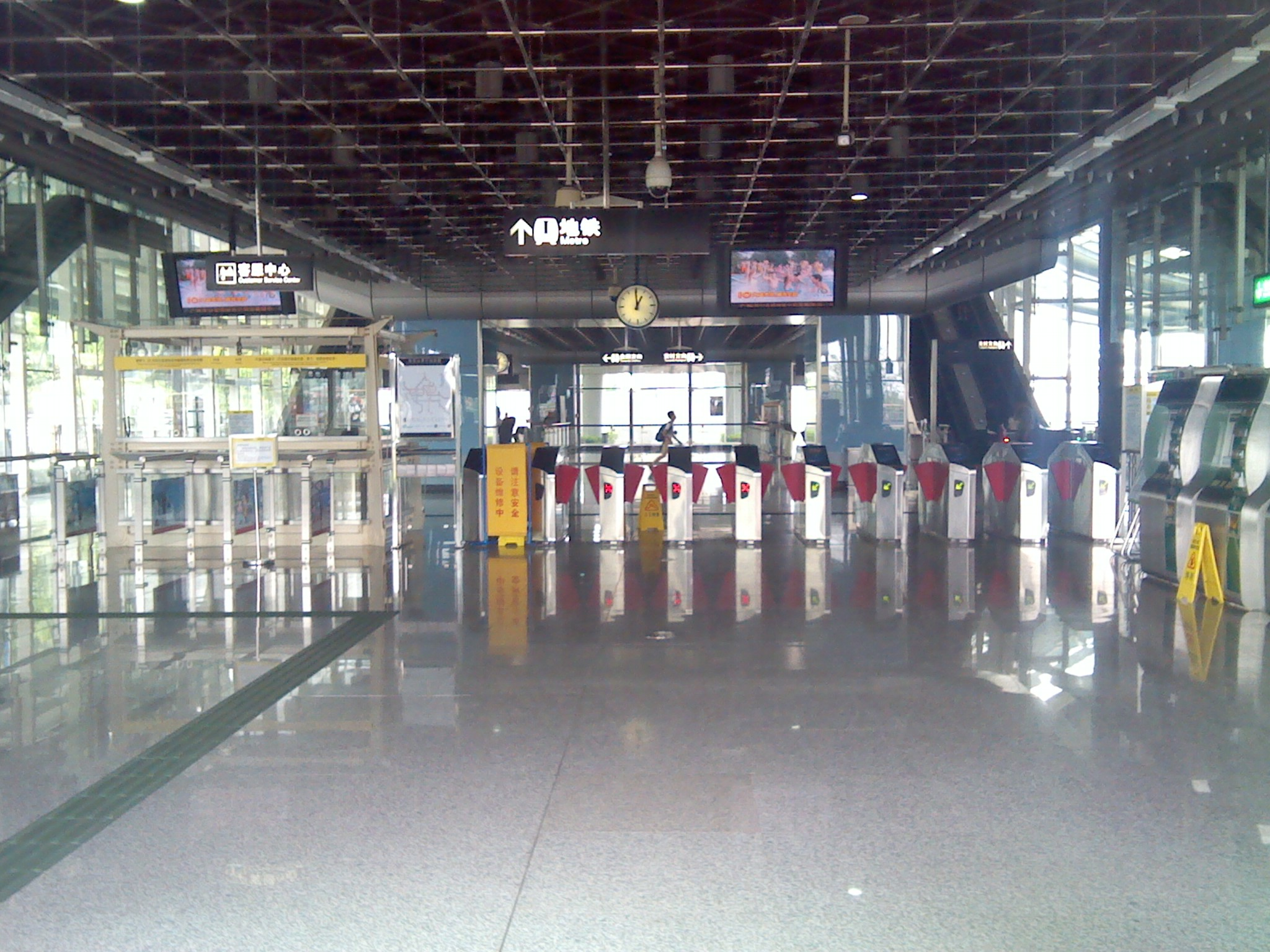 海傍站车站站厅